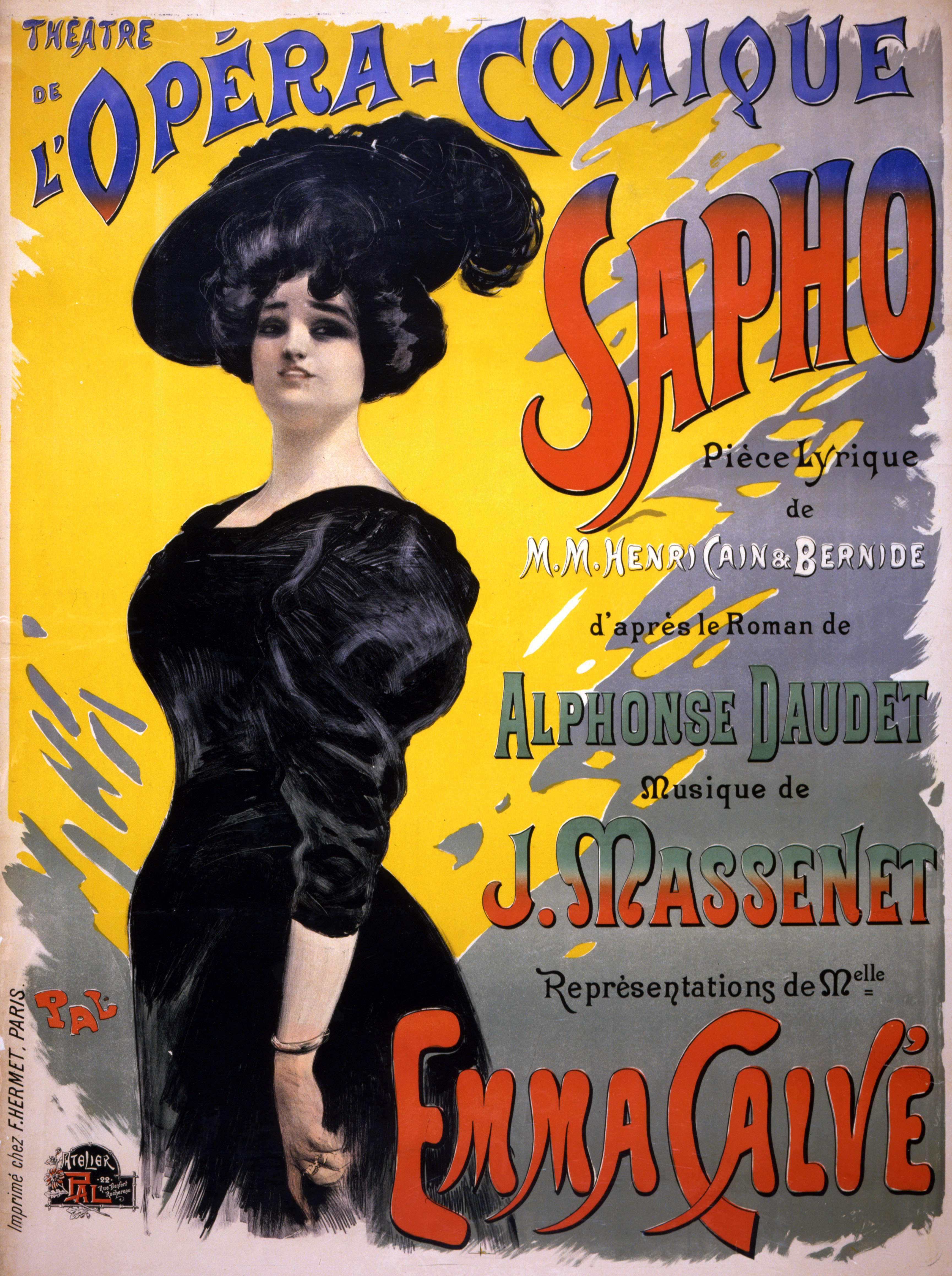 Poster for the premiere of Massenet's opéra-comique Sapho which was first performed on 27 November 1897 by the Opéra Comique at the Théâtre Lyrique on the Place du Châtelet in Paris with Emma Calvé in the title role, née Fanny Legrand.